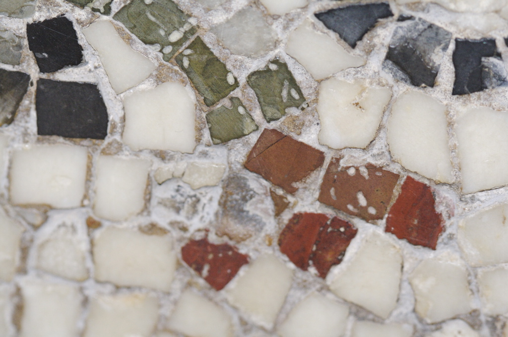 A hoard of photos from a day trip to London. We started in Greenwich at the Royal Observatory, and then spent most of the evening at the British Museum. These are uncleaned and unedited; all I've done is shrunk to make it faster to upload them. I'll post some of my faves to my "real" Flickr account as time and mood permits. A hoard of photos from a day trip to London. We started in Greenwich at the Royal Observatory, and then spent most of the evening at the British Museum. These are uncleaned and unedited; all I've done is shrunk to make it faster to upload them. I'll post some of my faves to my "real" Flickr account as time and mood permits.